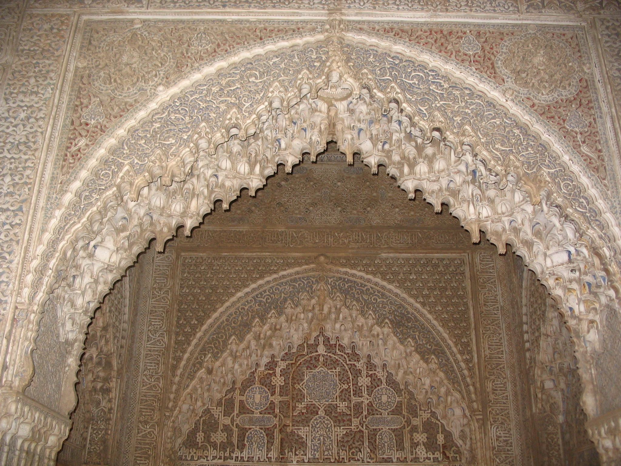 Picture taken by myself.